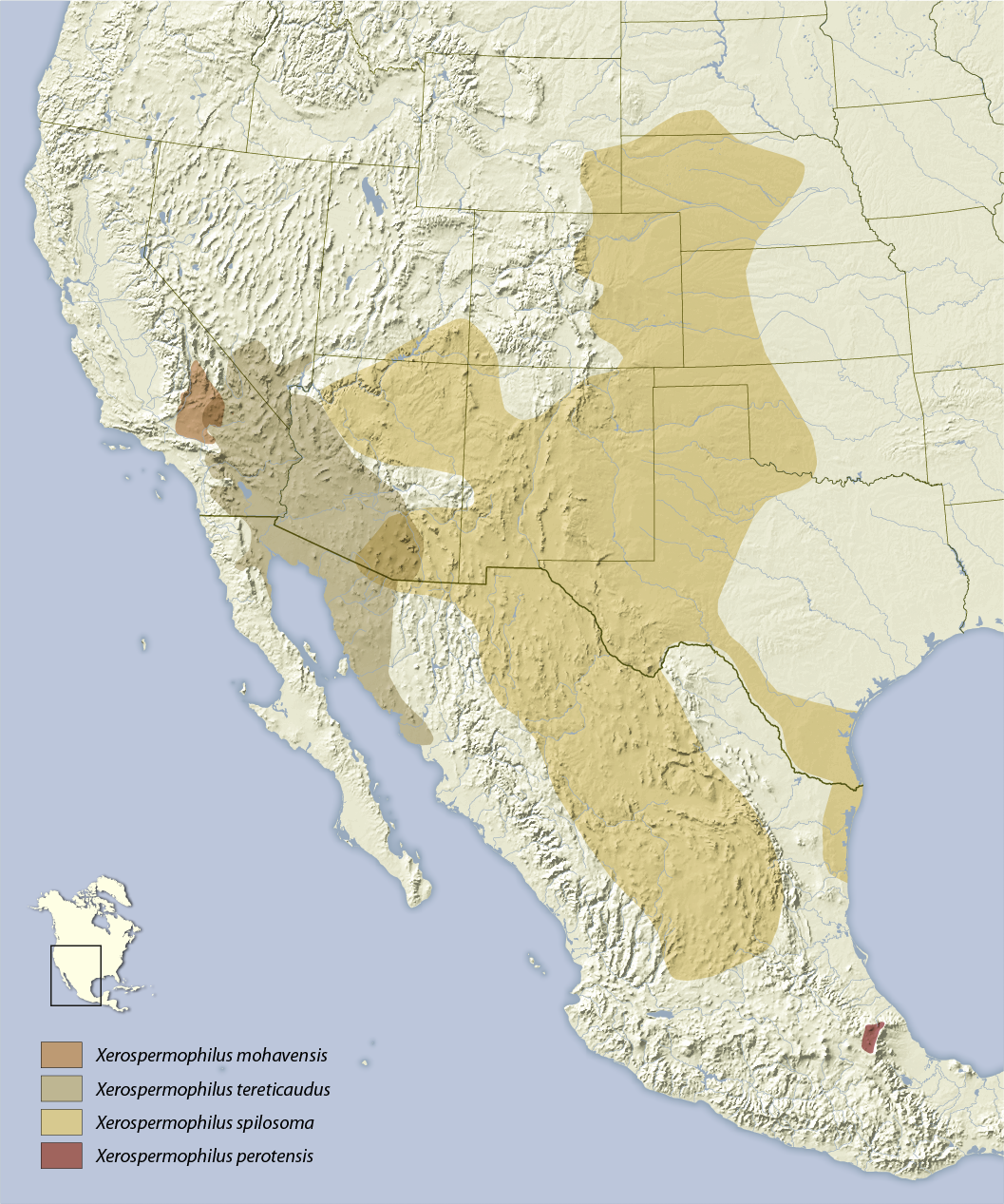 Distribution map of the genus Xerospermophilus